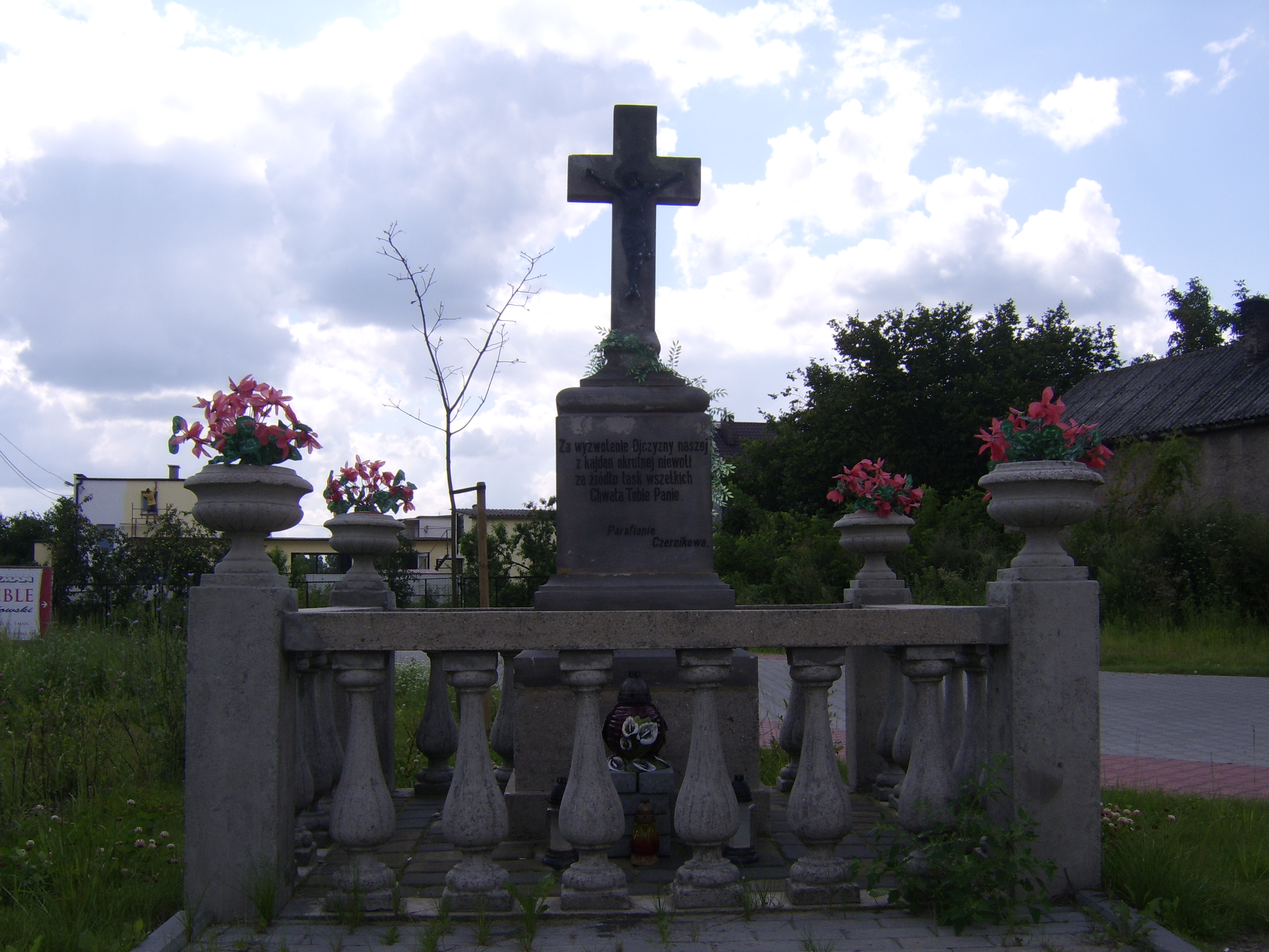 Cross votive in the village Czernikowo